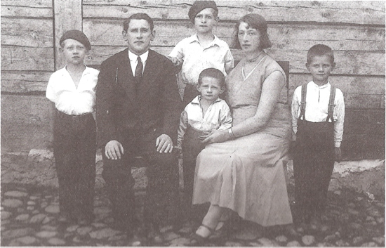 Meir, Ruhama, Aba, Benjamin, Yosef, Yehuda Weinstein